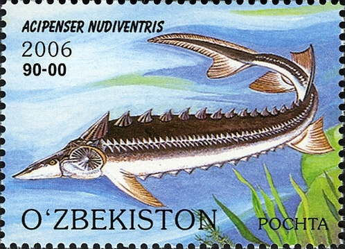 Stamps of Uzbekistan, 2006